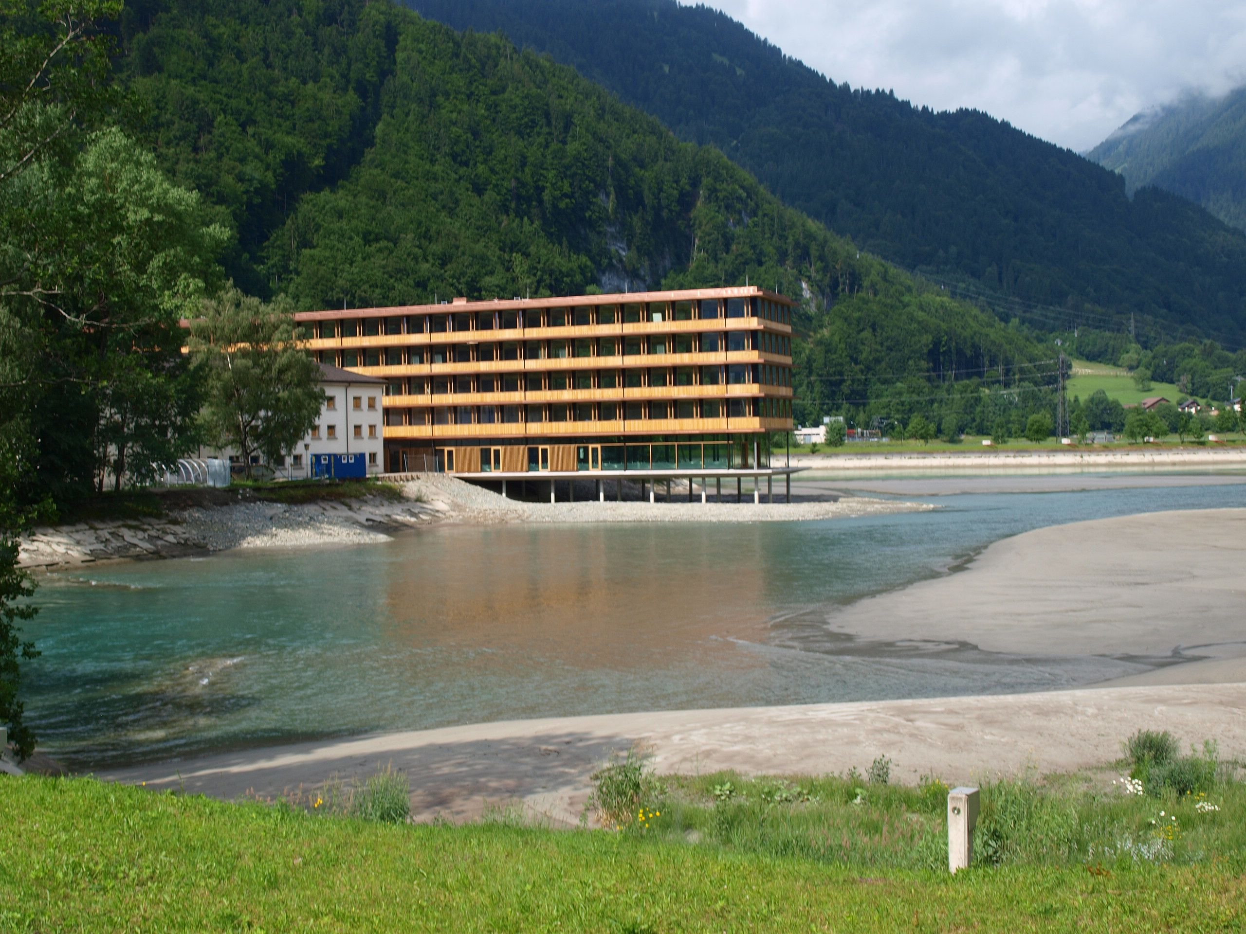 LCT TWO (LifeCycle Tower No. 2), Vandans, Vorarlberg Austria. multifunctional demonstrationbuilding in wood-boltwork. East side of the building (under construction).